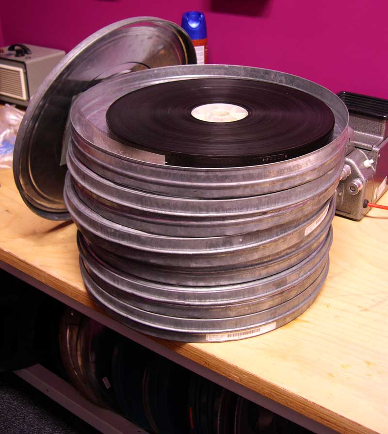 A 35mm cinema release print in six 2,000 foot reels, as it would typically be distributed in Europe. In North America, prints are more usually distributed on 4" cores and plastic split reels, housed in vertical shipping containers.